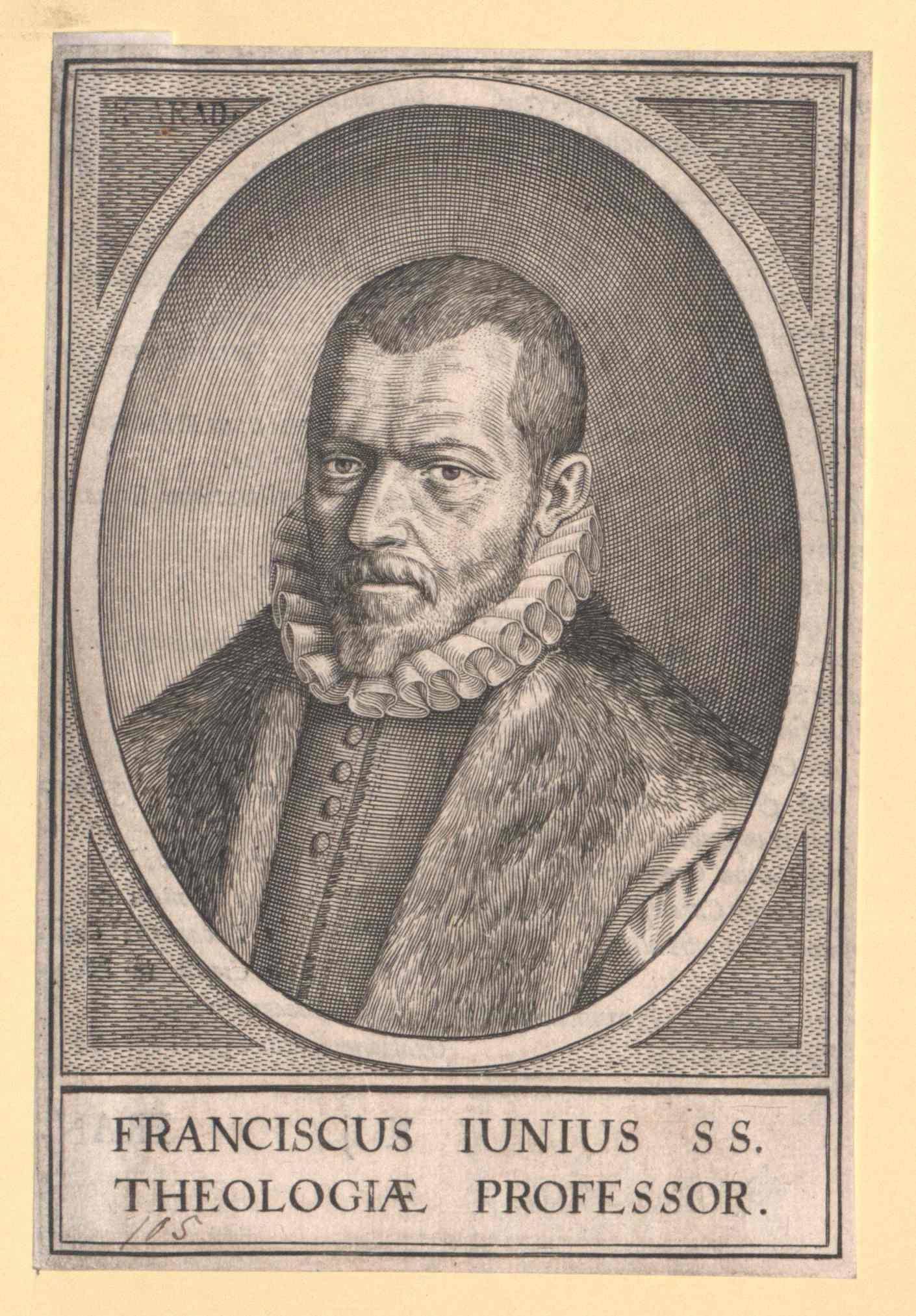 Portrait of Franciscus Junius (1545-1602) Vienna, Austrian National Library, Picture Archives and Graphics Collection, inv PORT_00108920_01 Austrian National Library, image file: onB8103156